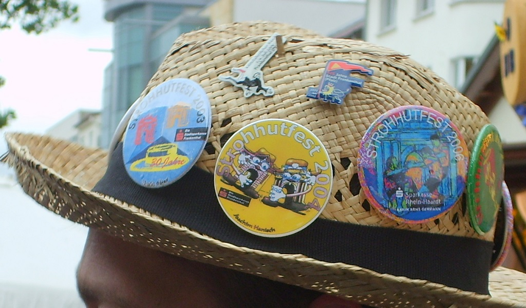 Strohhutfest, hat worn by men, with buttons